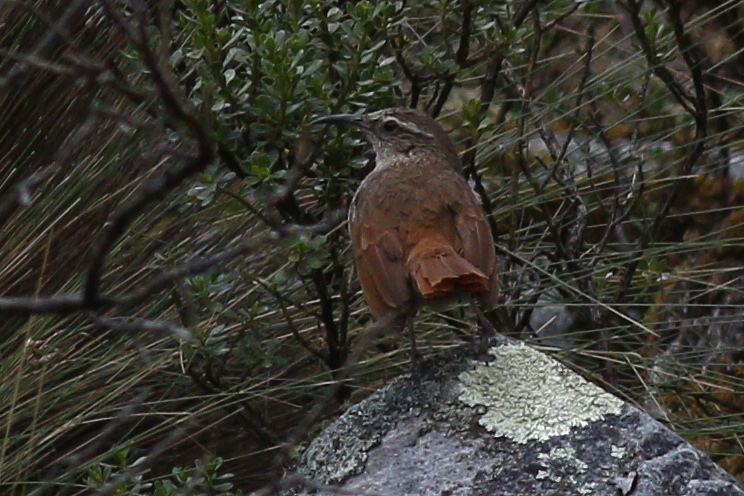 Striated Earthcreeper, Peru